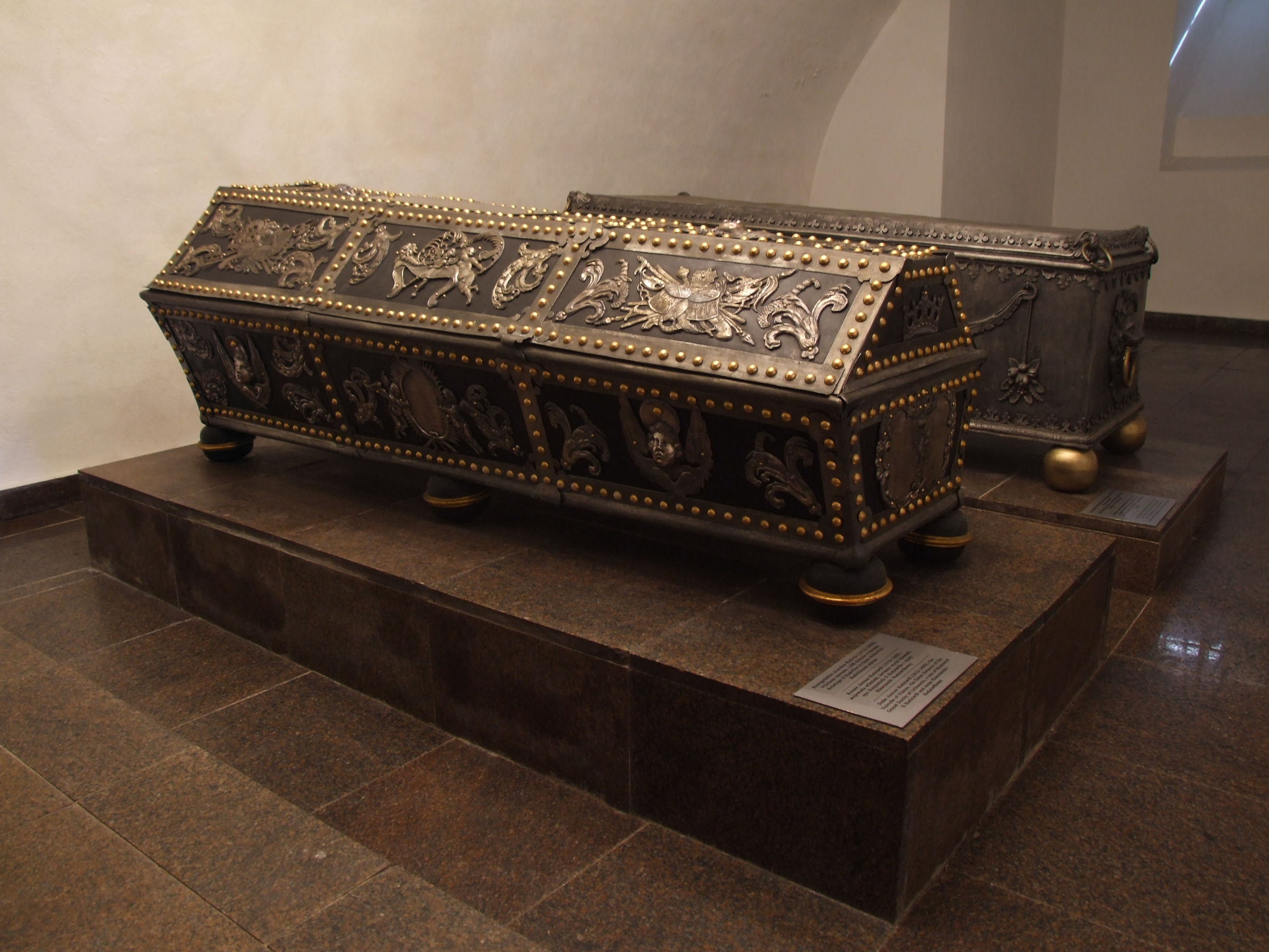 Sarcophagi of Radziwiłłowie in Kėdainiai (Kiejdany)